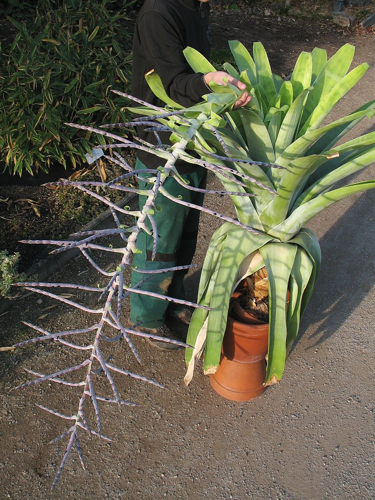 Tillandsia teres in cultivation at the Botanical Garden of Heidelberg, Germany.